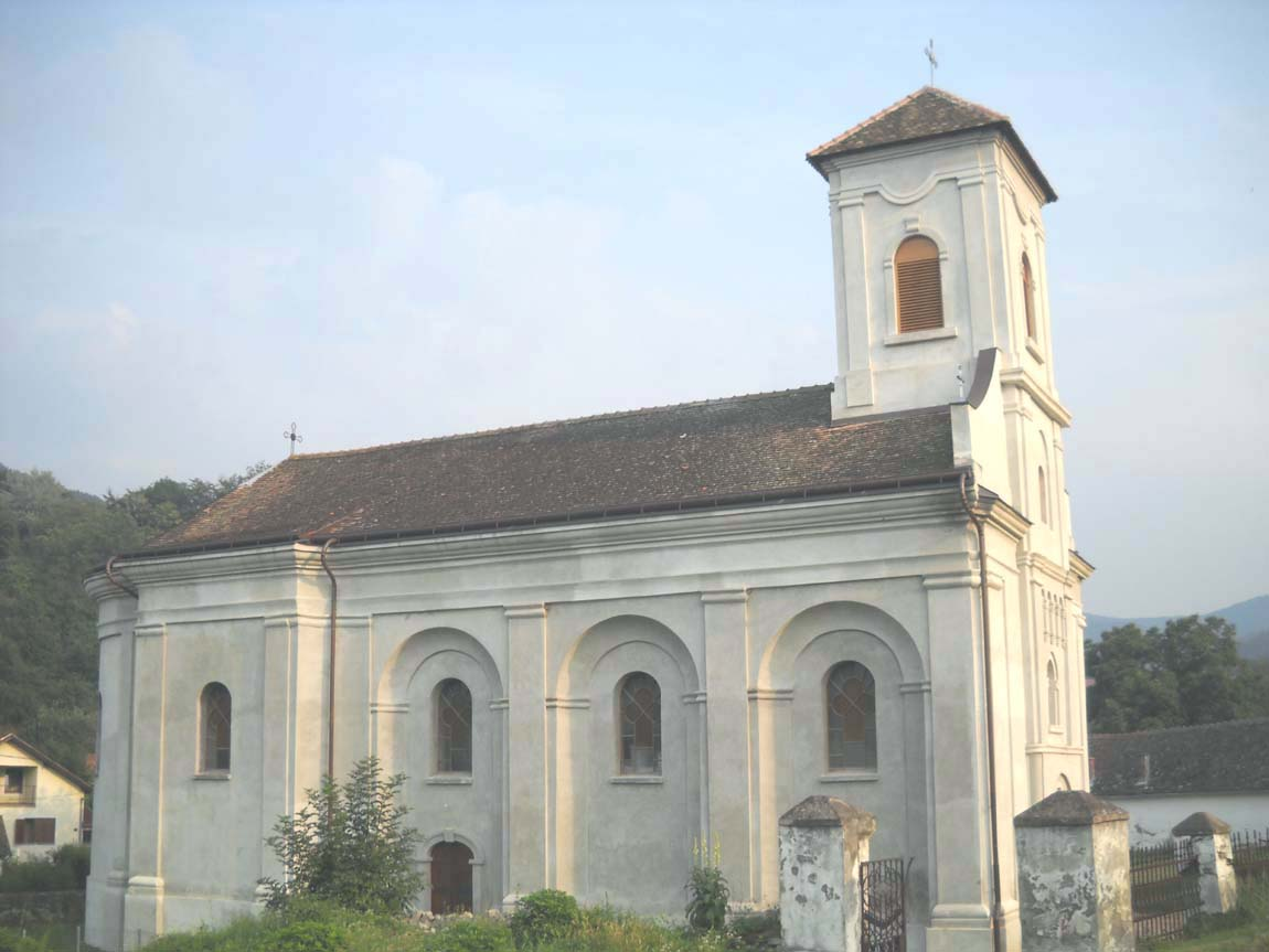 Orthodox church in Stari Ledinci, near Novi Sad.